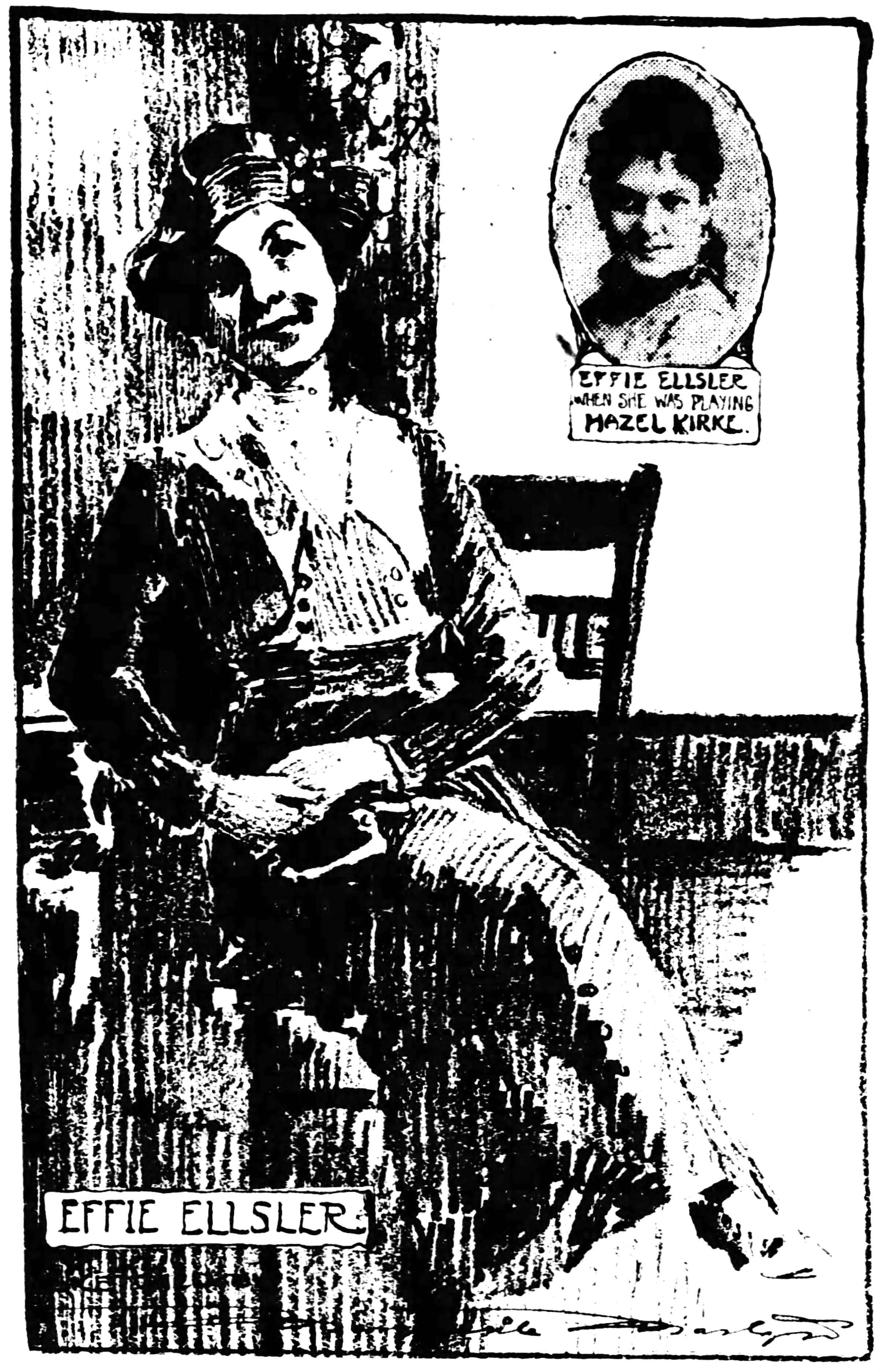 Sketch of actress Effie Ellsler